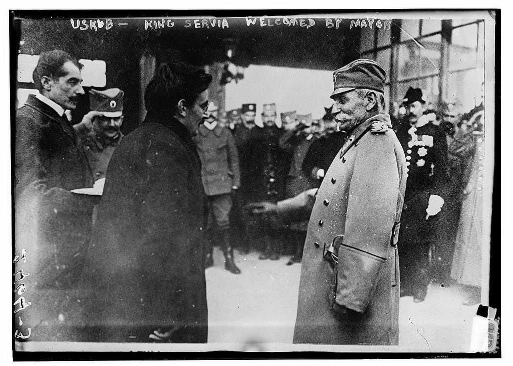 Serbian King Peter I greeted by the Mayor of Skopje.